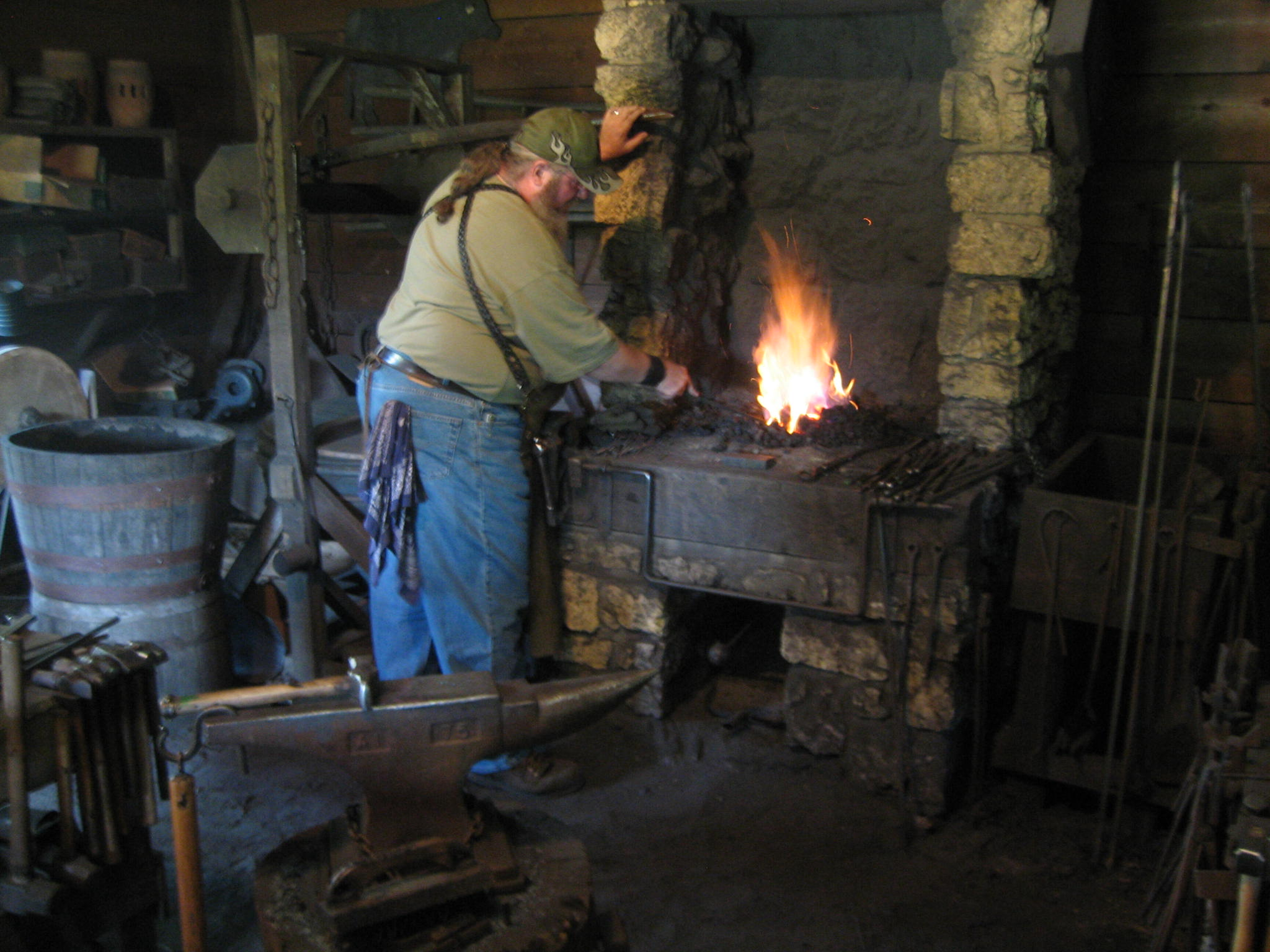 John Deere Blacksmith Shop replica, interior. A blacksmith (Rick) demonstrates the furnace similar to that John Deere might have used. John Deere Historic Site (John Deere House & Shop) - Grand Detour, Illinois, United States. U.S. National Register of Historic Places, U.S. National Historic Landmark.